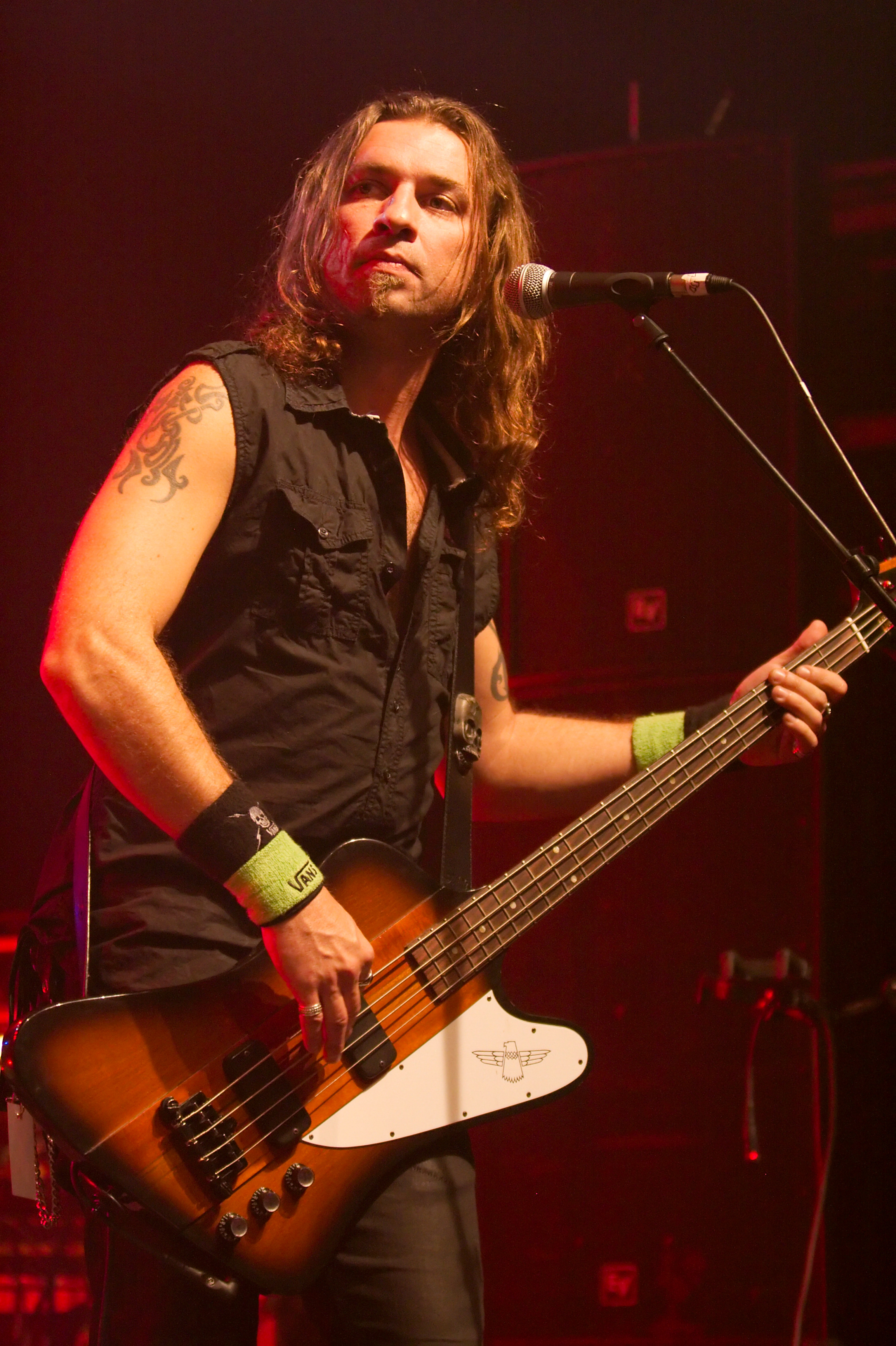 Les Fatals Picards live at Aix-en-Provence (France) for the French song festival 2009.